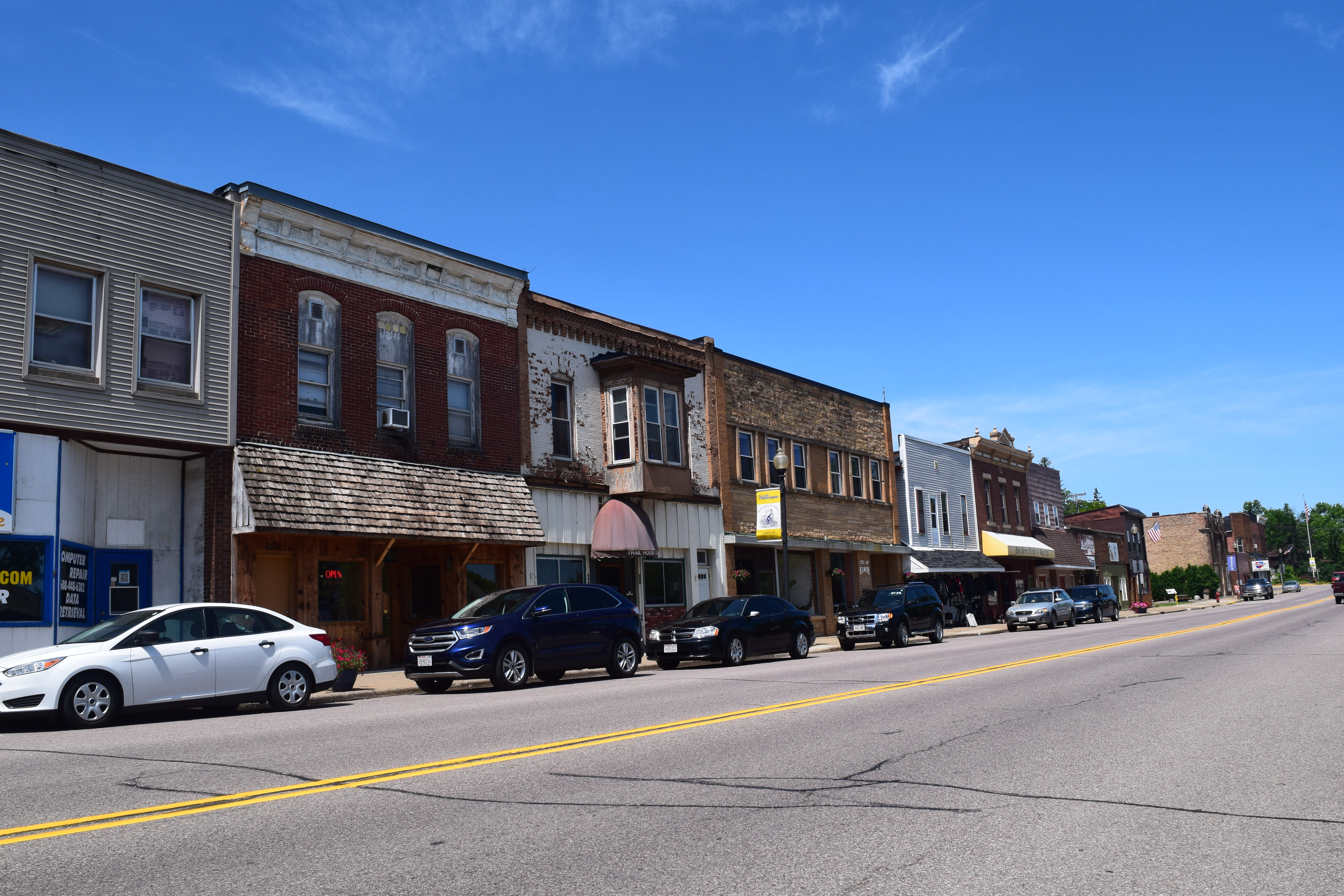 Buildings in downtown Elroy, Wisconsin.